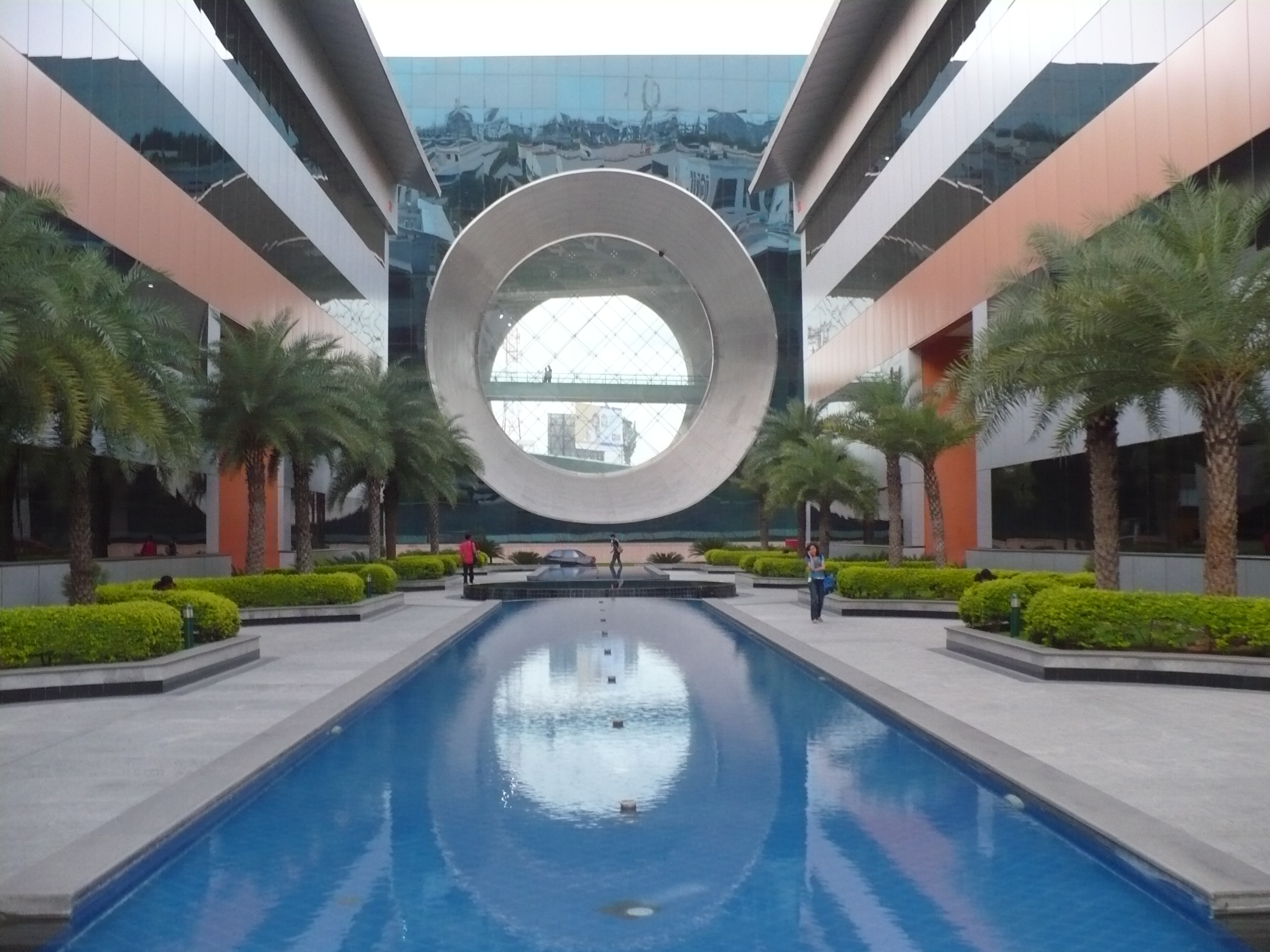 By Nikhil Kulkarni